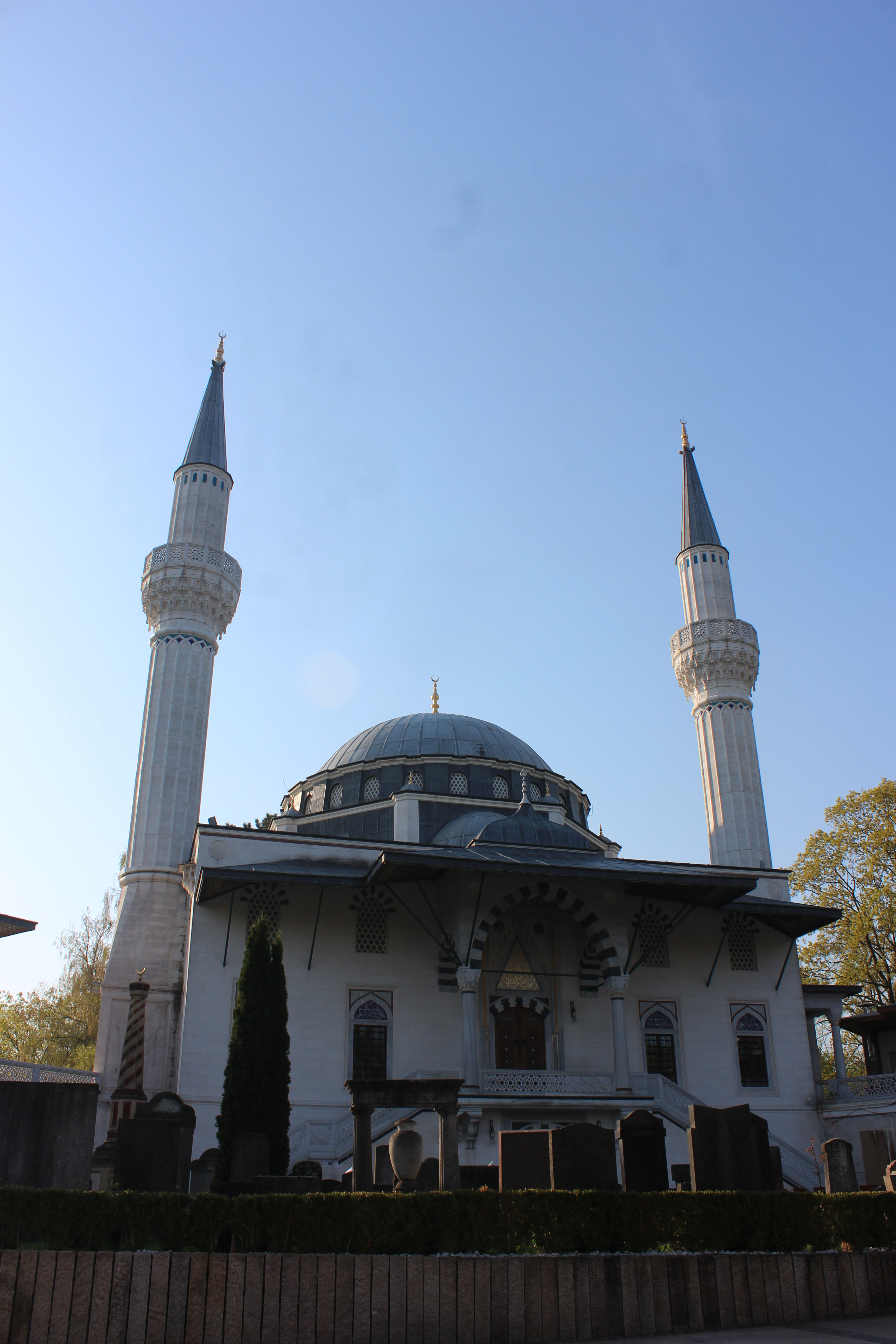 Turk Sehitlik Camii, Berlin, Germany.